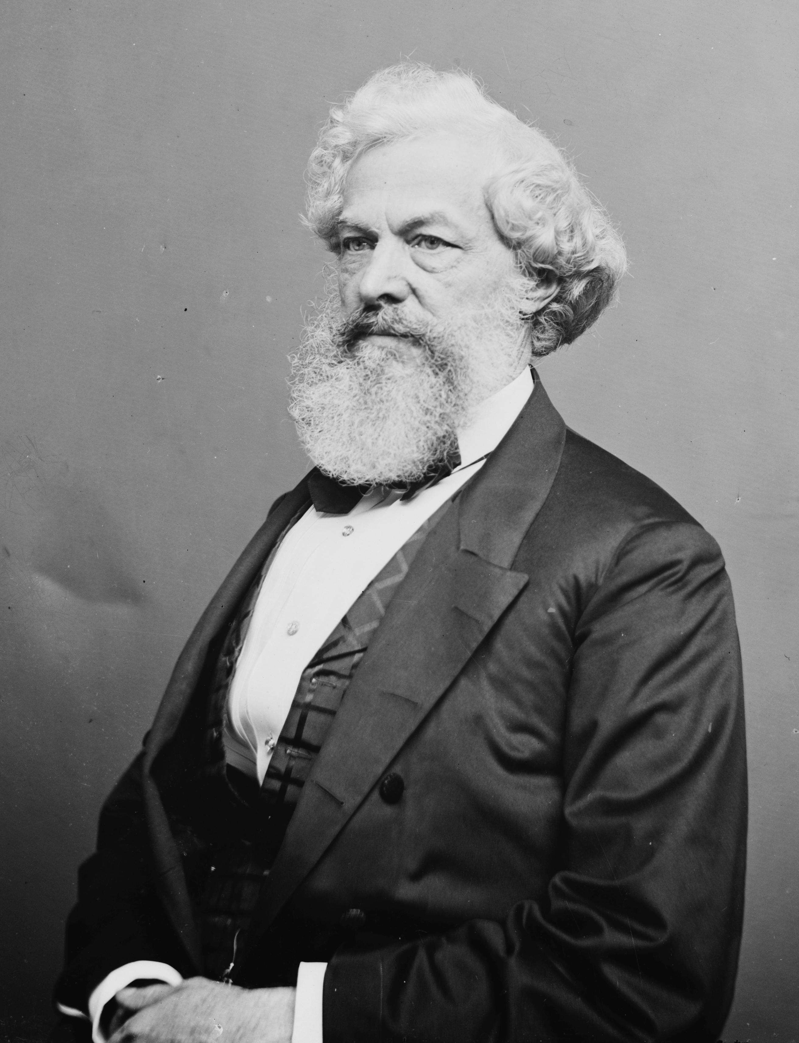 Thomas U. Walter. Library of Congress description: "Thos. U. Walter".